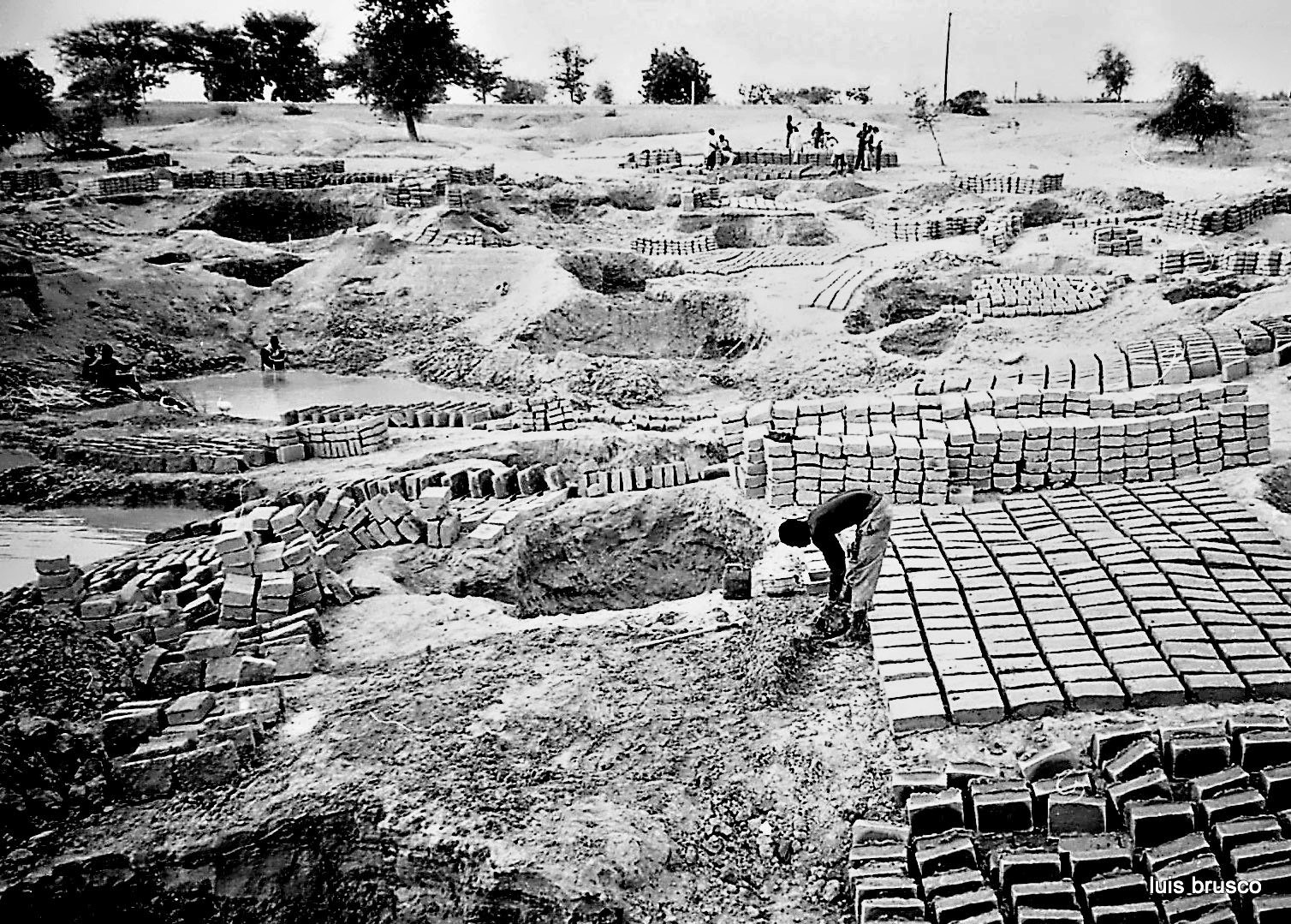 500px provided description: The photo has been captured in Niger, West Africa in 1998 in Garagoumsa and shows the working place of the development project called "Construction sans bois" (building without wood) in the Sahel to contribute to a better natural ressources management in the region improuving adobe construction techniques adapted to local needs in terms of weather conditions and cultural traditions [#building ,#landmark ,#workers ,#building exterior ,#adobe construction ,#Niger ,#West Africa ,#conditions extremes ,#construction technique ,#local ressources ,#artisans de la construction]